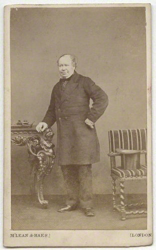 Photograph of John Clowes Grundy, (1806–1867) was an English printseller and art patron.